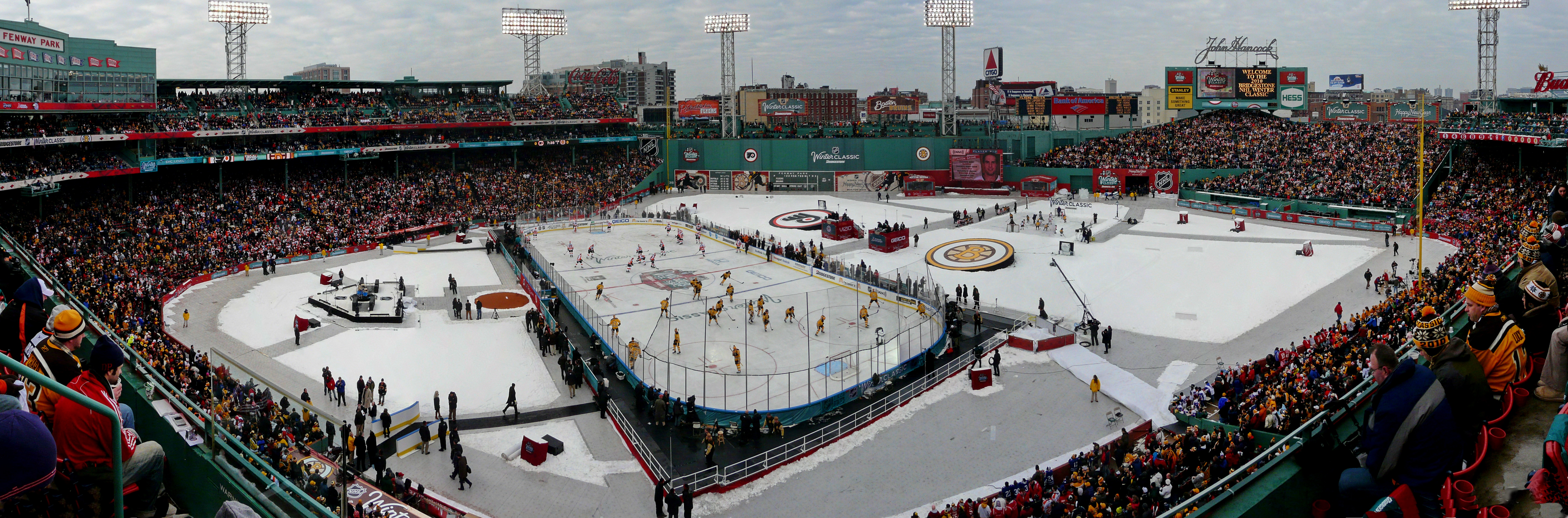 Panorama of park at the 2010 NHL Winter Classic